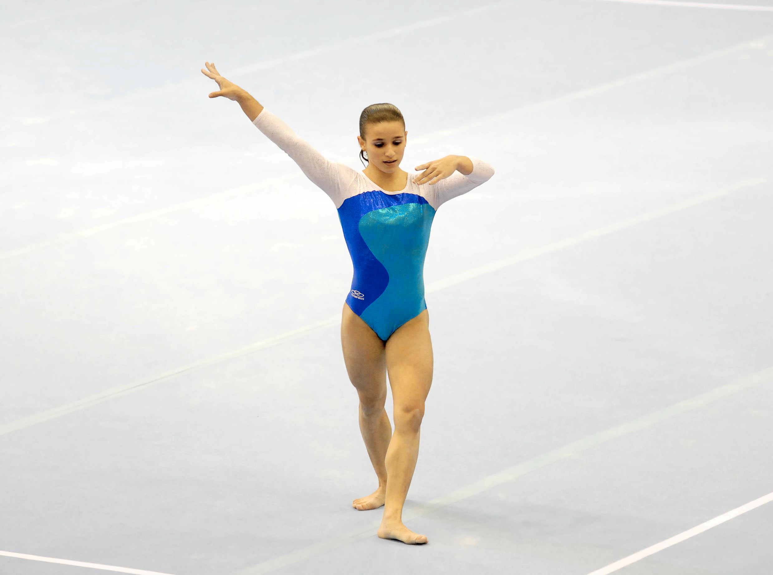 Jade Barbosa, a Brazilian artistic gymnast, beginning a pirouette turn during her floor routine at the 2007 Pan American Games in Rio de Janeiro.